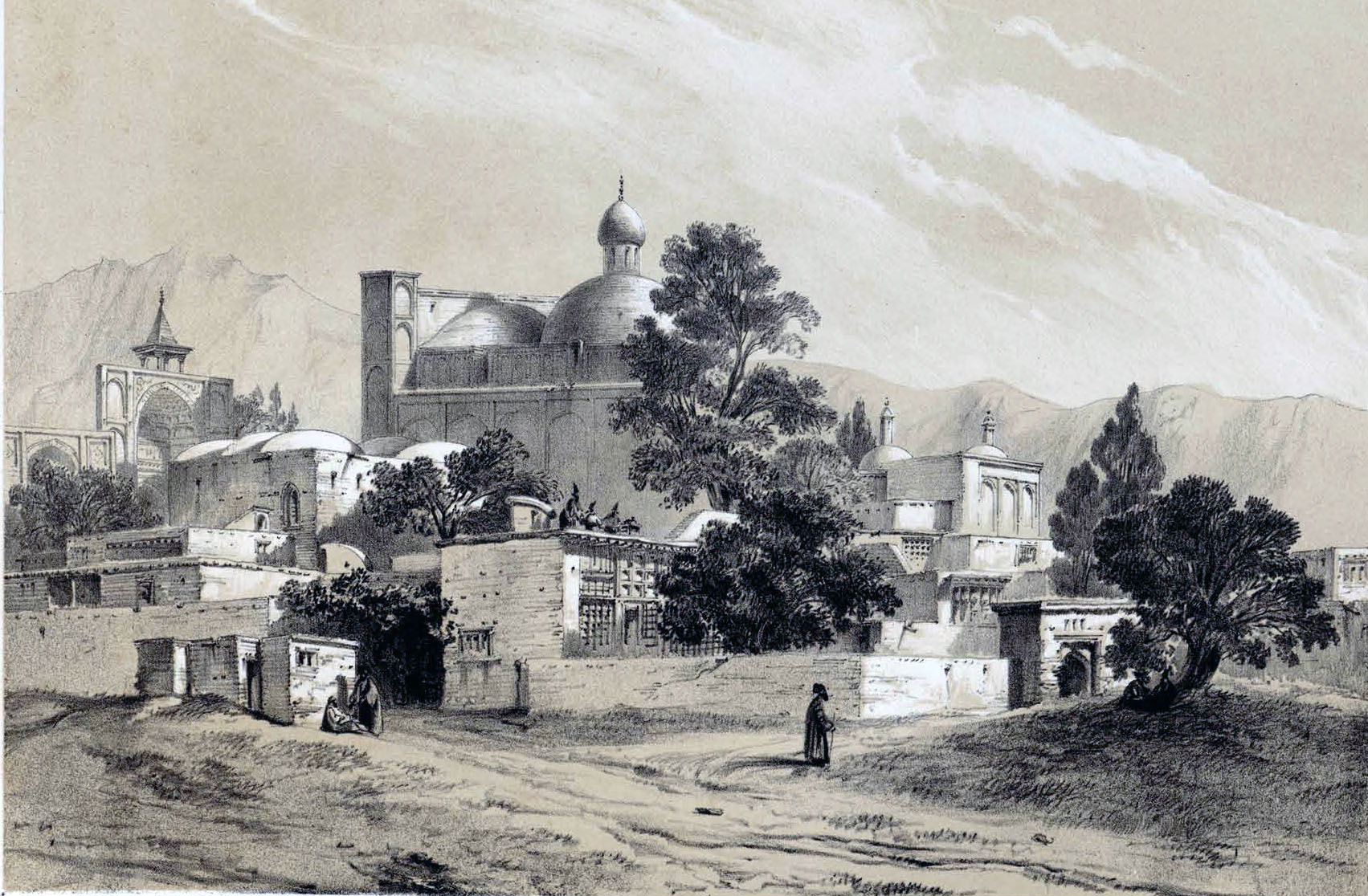 Sultani mosque Boroudgerd